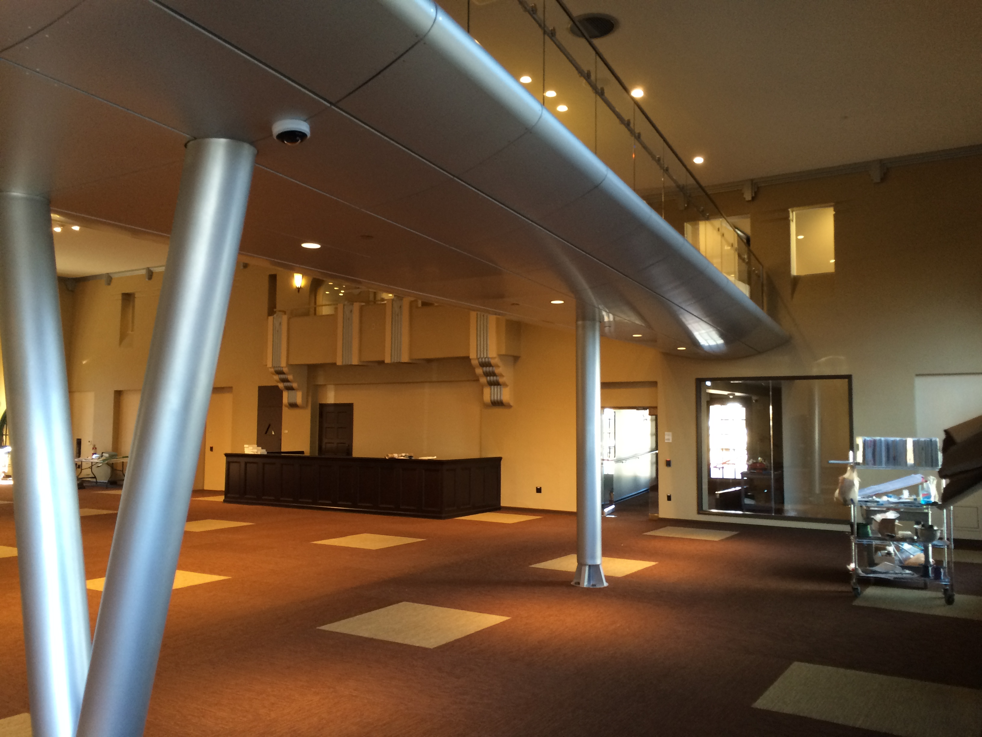 North side of the building